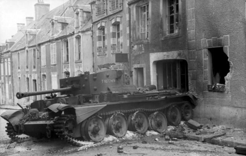 Information added by Wikimedia users.roughly translates as "France, Villers-Bocage.- destroyed British Cruiser Tank VIII Cromwell (Turret number: T 187749) in the village in front of burnt house; PK Signal-Einsatz"